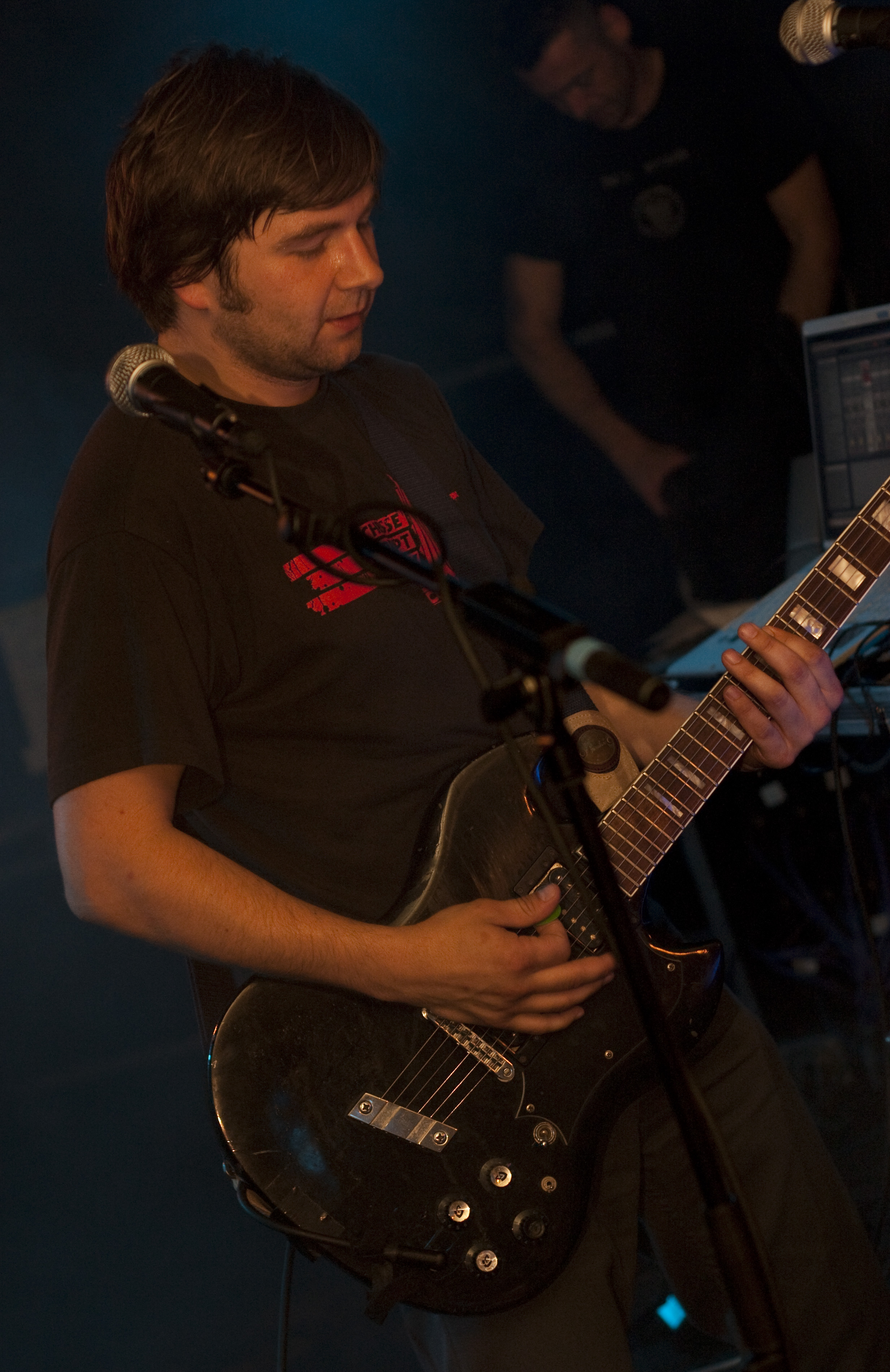 German musician Norman Kolodziej (Bratze, Der Tante Renate) at Bergpop 2009